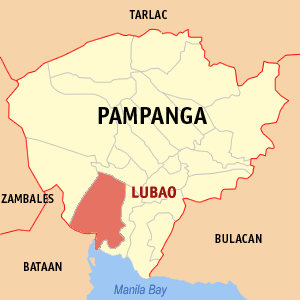 Map of Pampanga showing the location of Lubao